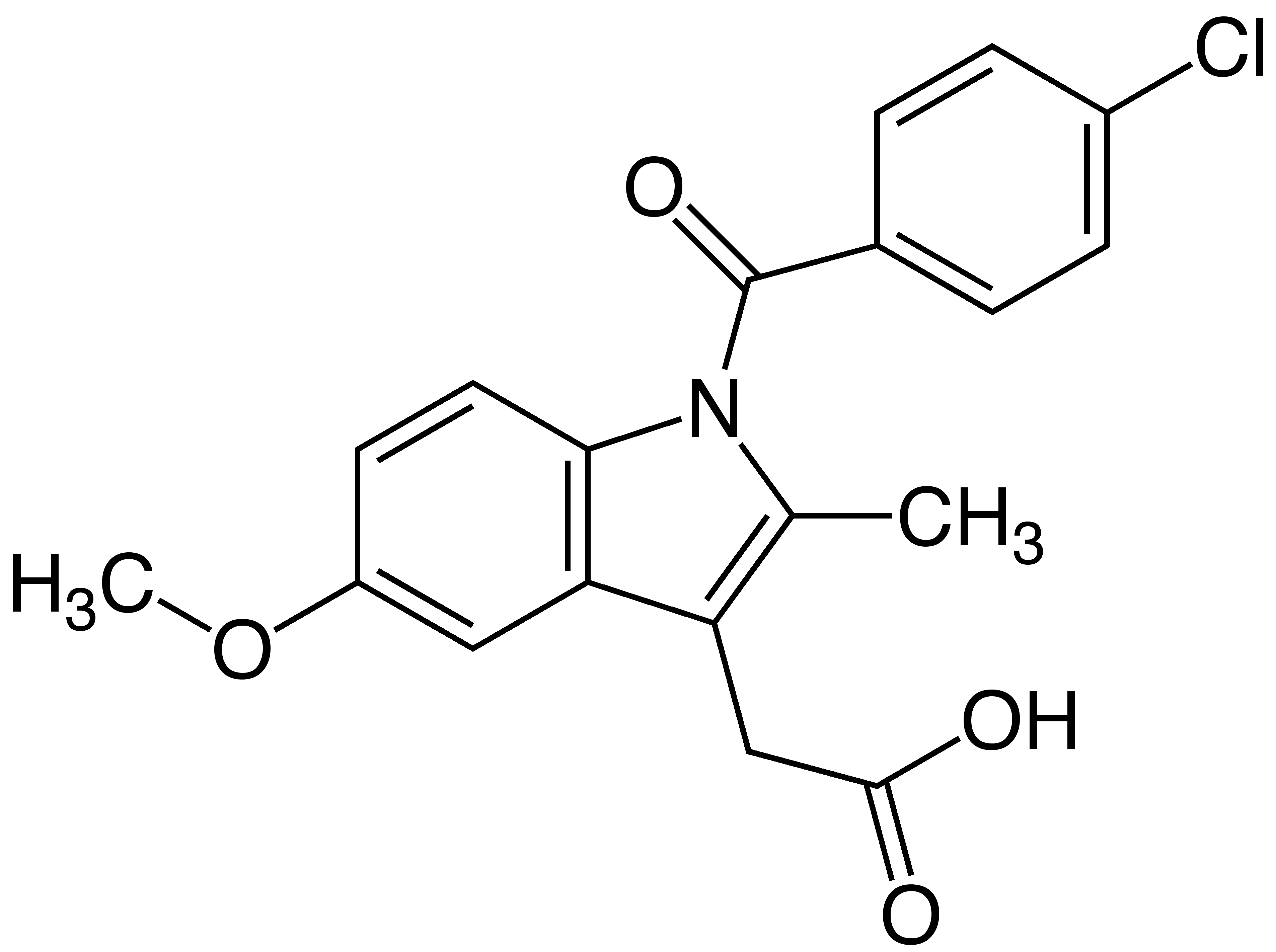 Indometacin_Structural_Formula